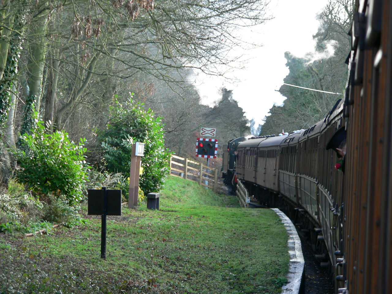 A southbound Severn Valley Railway train crosses the only level crossing on the route, at Northwood Halt shortly before Bewdley station.